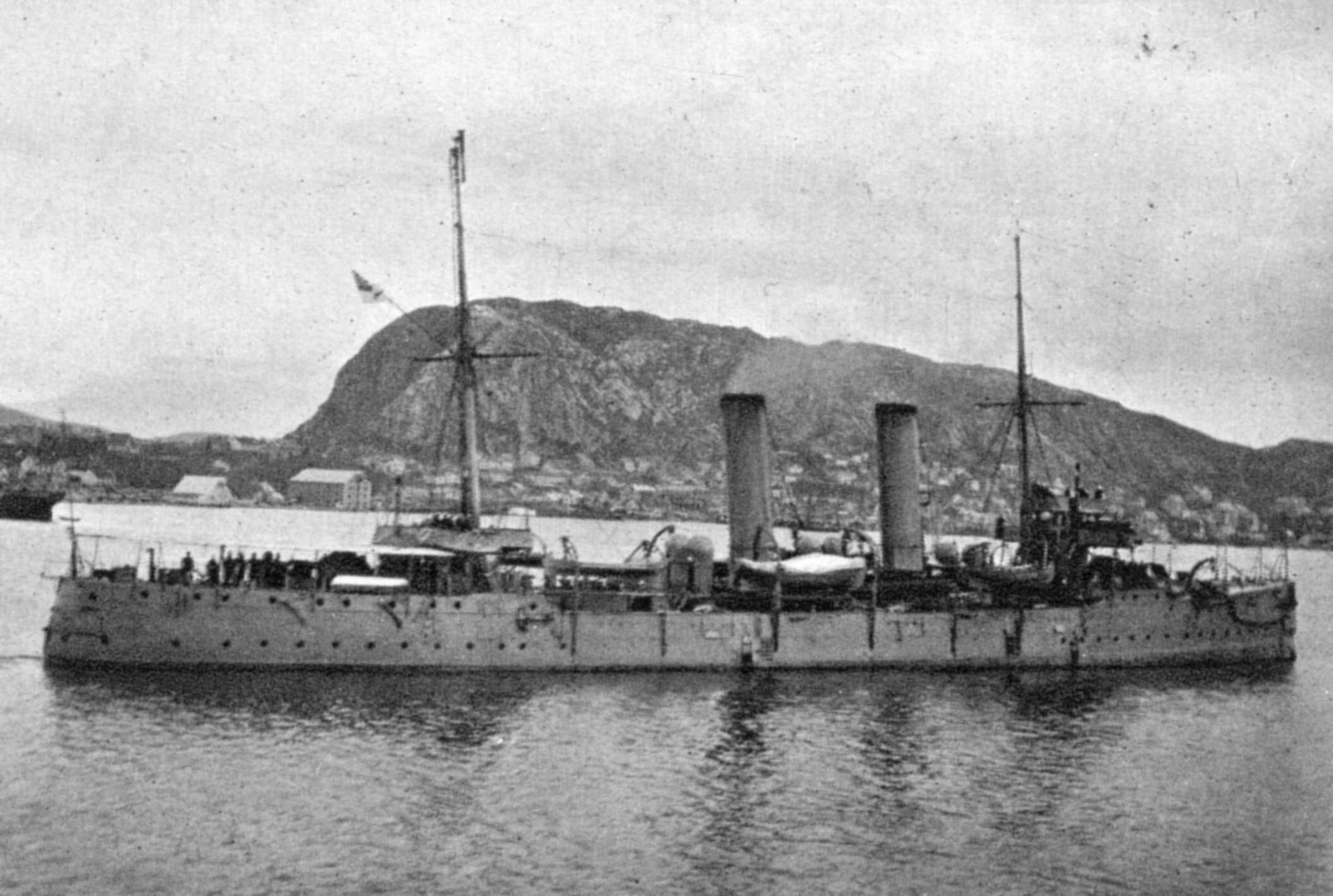 snapshot of HMS Spartan taken Norway in 1904. Probably on Royal escort duty. Ship was an Apollo class cruiser constructed 1891 and scrapped 1931